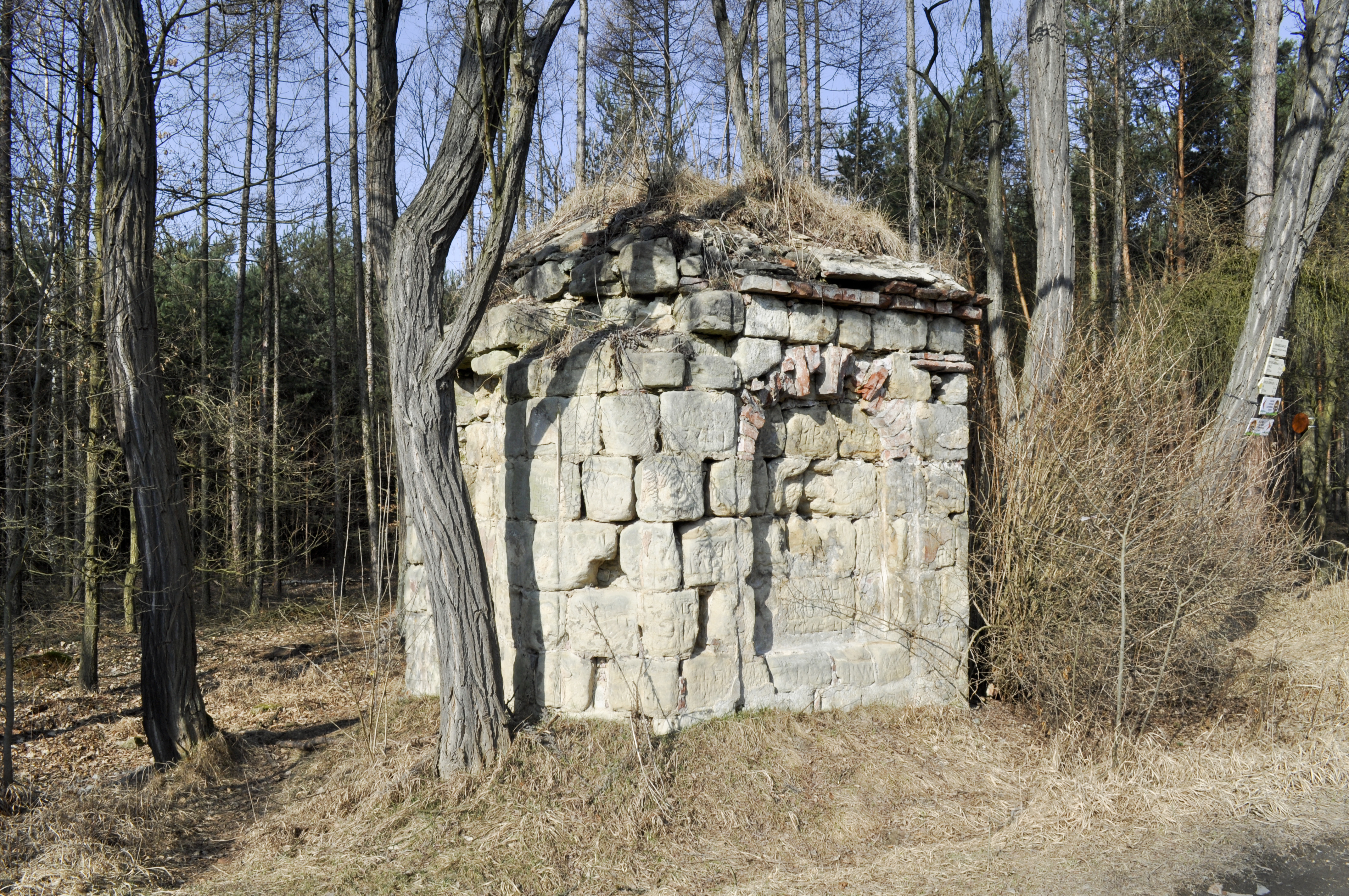 The Count´s Chapel, Stračí, Ústí nad Labem Region